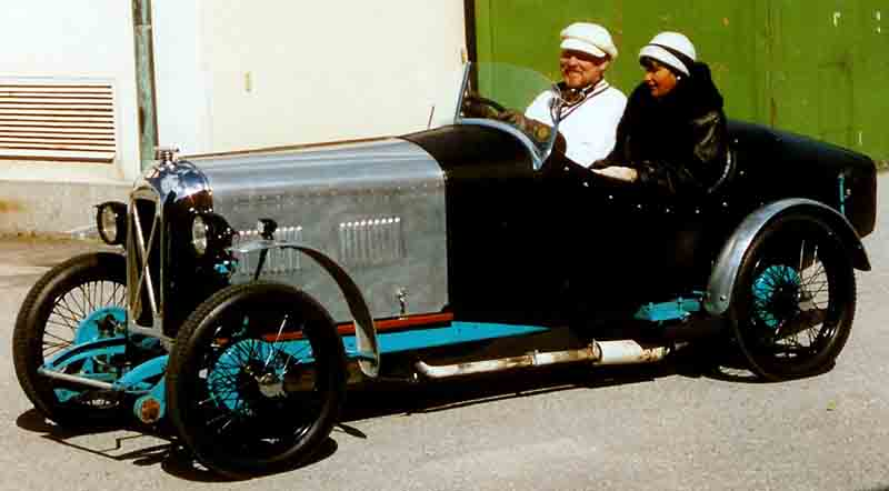 Salmson 9½ HP Grand Prix 2-Seater Sports 1928